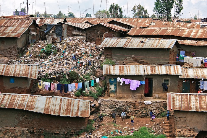 A view of some houses in the Kibera Slum. Nairobi, Kenya. Garbage removal services are typically unavailable in slums. So solid waste piles up in different corners. Major wind or floods wash these away into rivers and natural ecosystems.